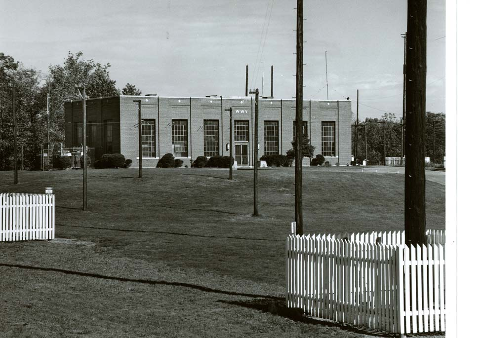 WWV's transmitter building in Beltsville, Maryland, USA.